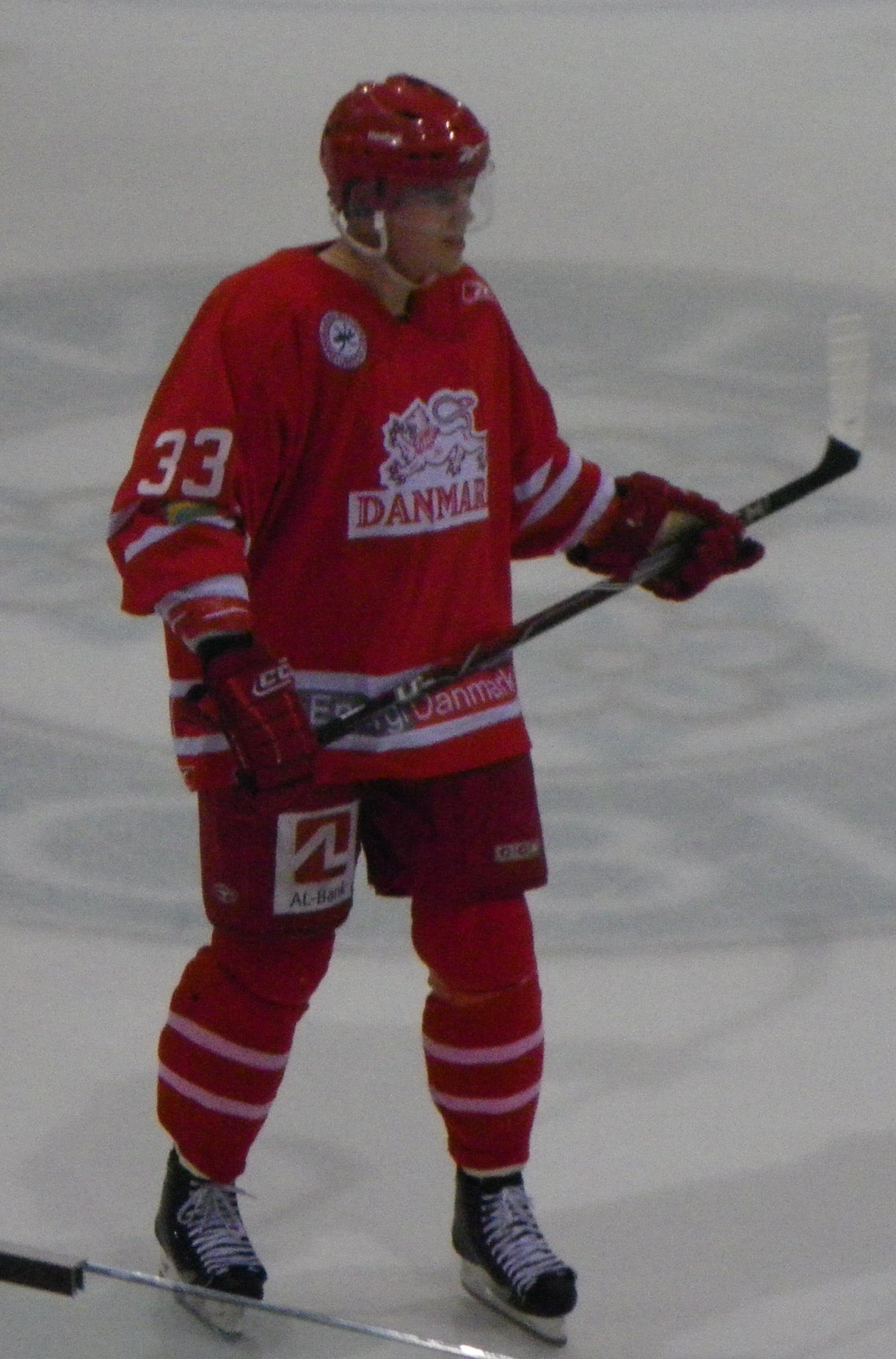 Julian Jakobsen, danish ice hockey player with team Denmark. Friendly against team France